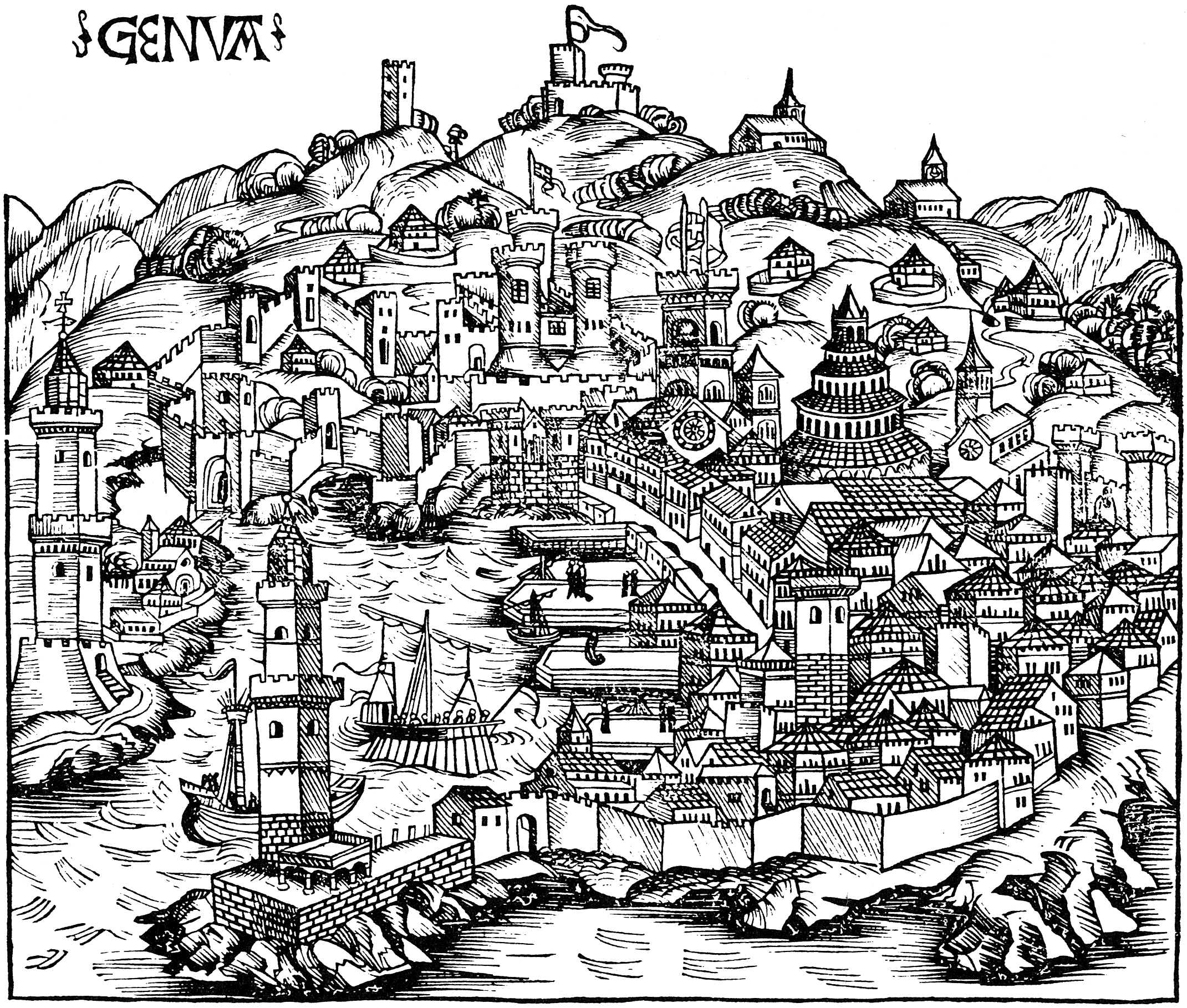 View of Genoa in Italy, around 1490.